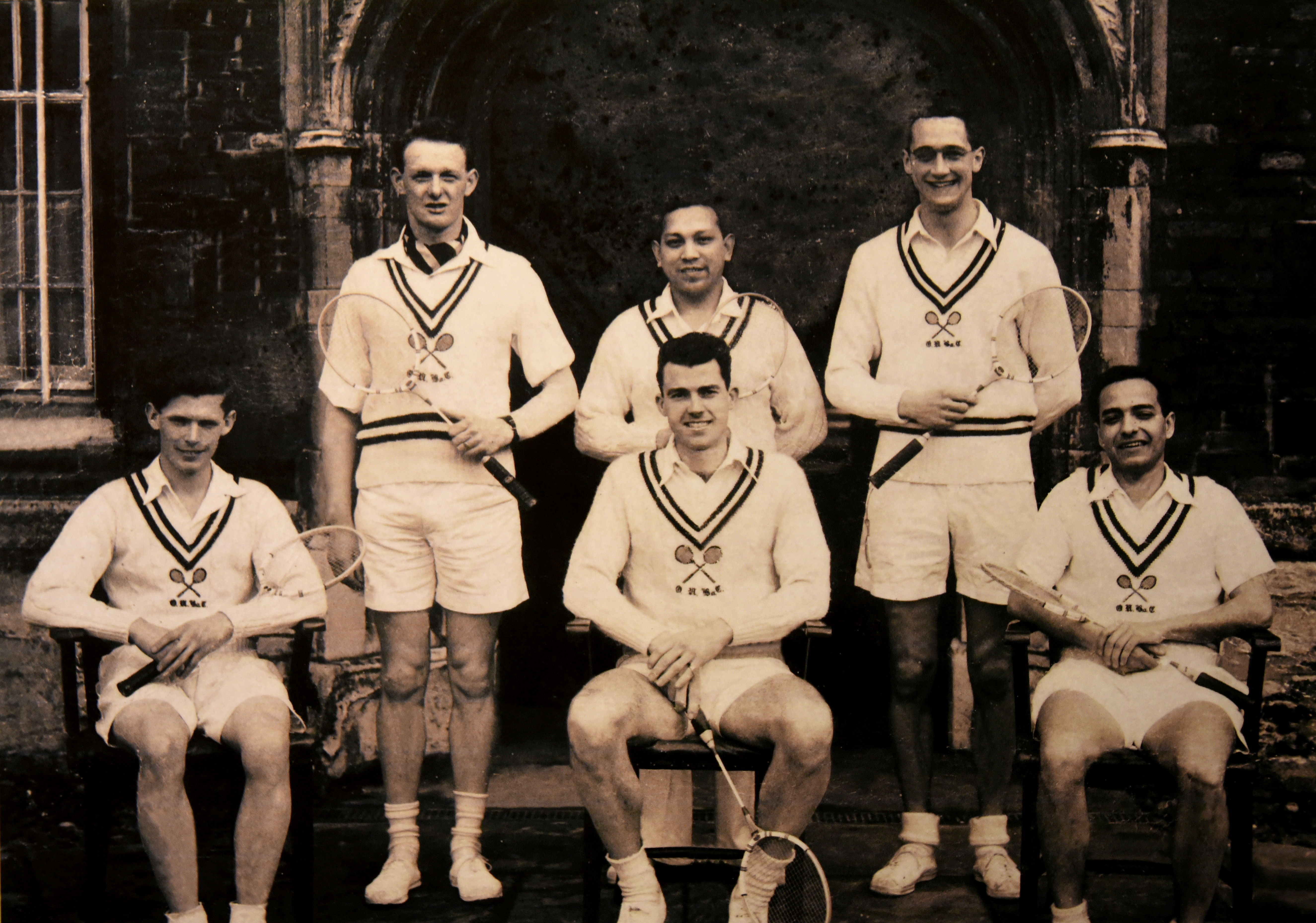 Tunaku Ja'afar along with Badminton Association at the University of Nottingham. Tunaku Ja'afar was part of the University of Nottingham's Men's 1st badminton team, which won the Universities Athletic Union Championships in the 1948-1949 season. They beat Manchester University in the finals. Unknown photographer. The original image is © the Tuanku Ja'afar Royal Gallery, Seremban, Negeri Sembilan, Malaysia.